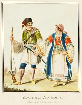 Luigi del Giudice: Villa Badessa Costume